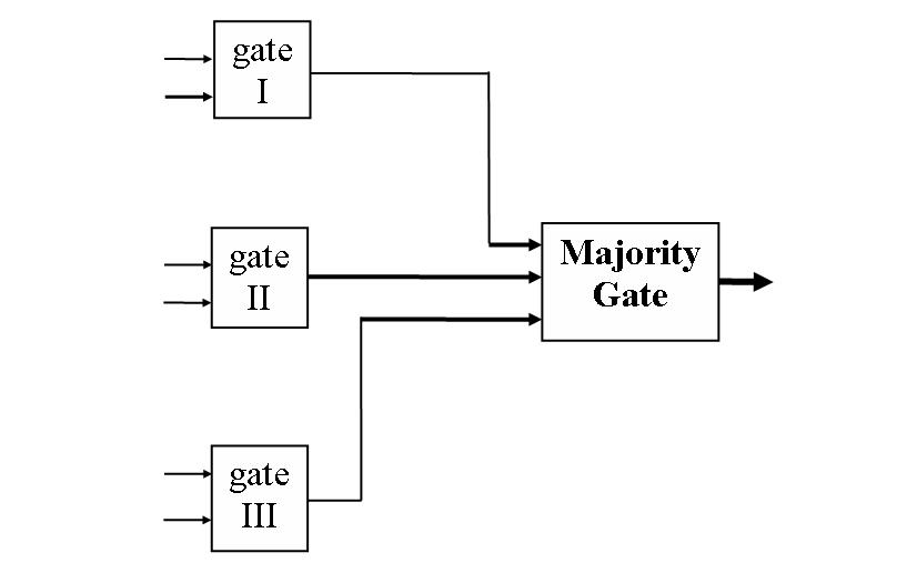 Triple Modular Redundancy Block Diagram, TMR Block Diagram